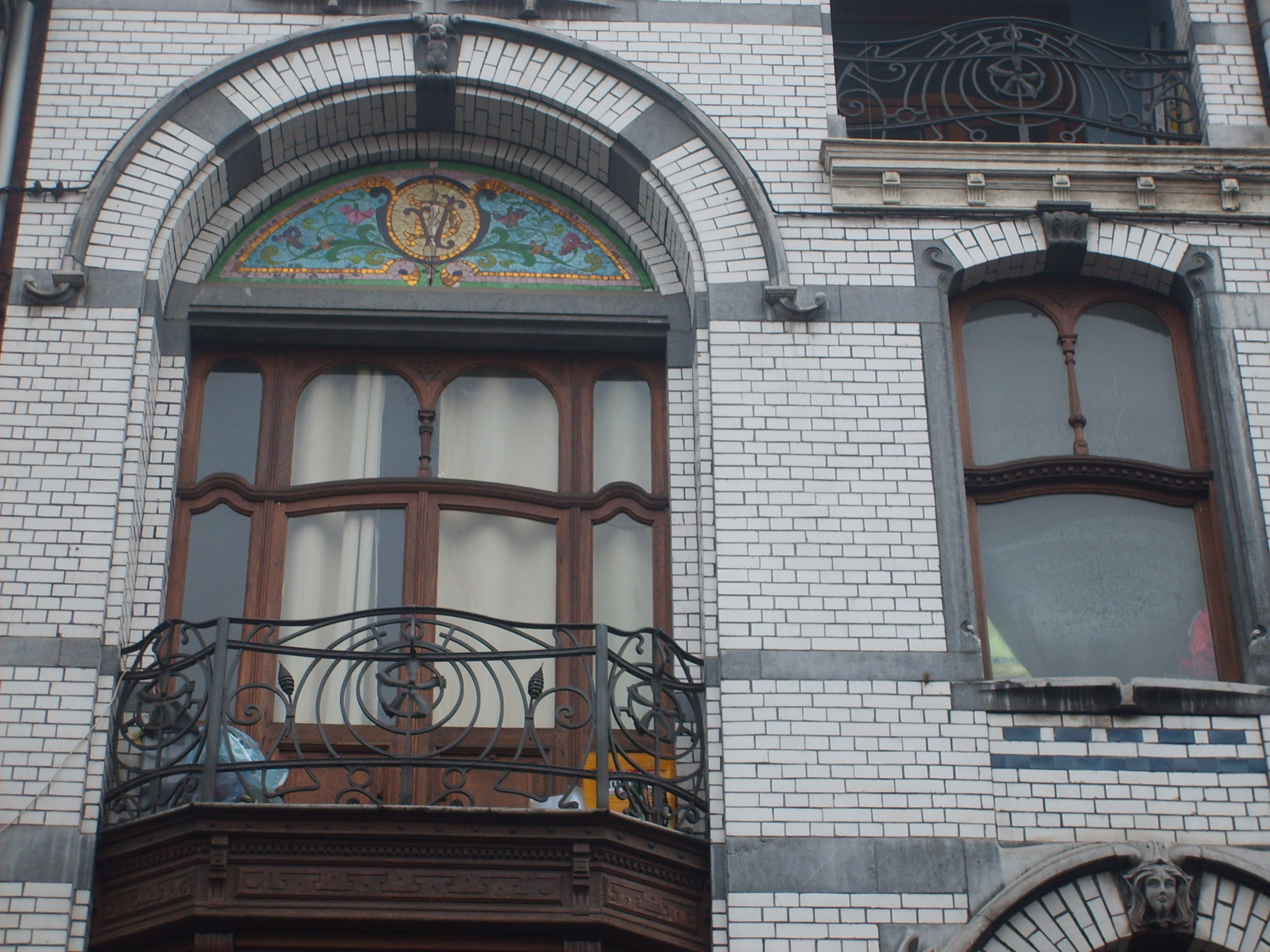 Second storey of Hôtel Verlaine at rue Grandgagnage 12 in Liège, Wallonia, Belgium. Constructed in 1910, it was designed by the Belgian architect Maurice Devignée in an Art Nouveau style.